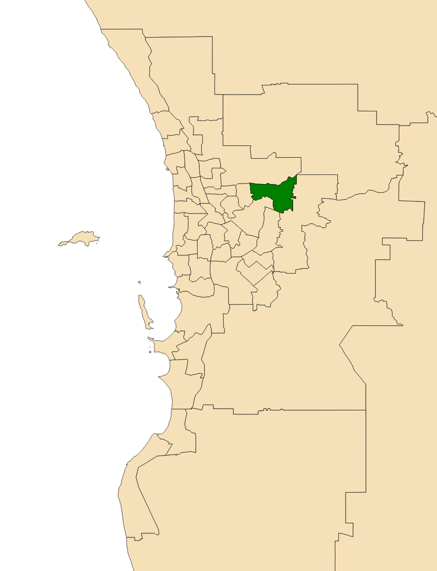 Location of the electoral district of Midland in the Perth metropolitan area, Western Australia as of the 2017 WA state election.